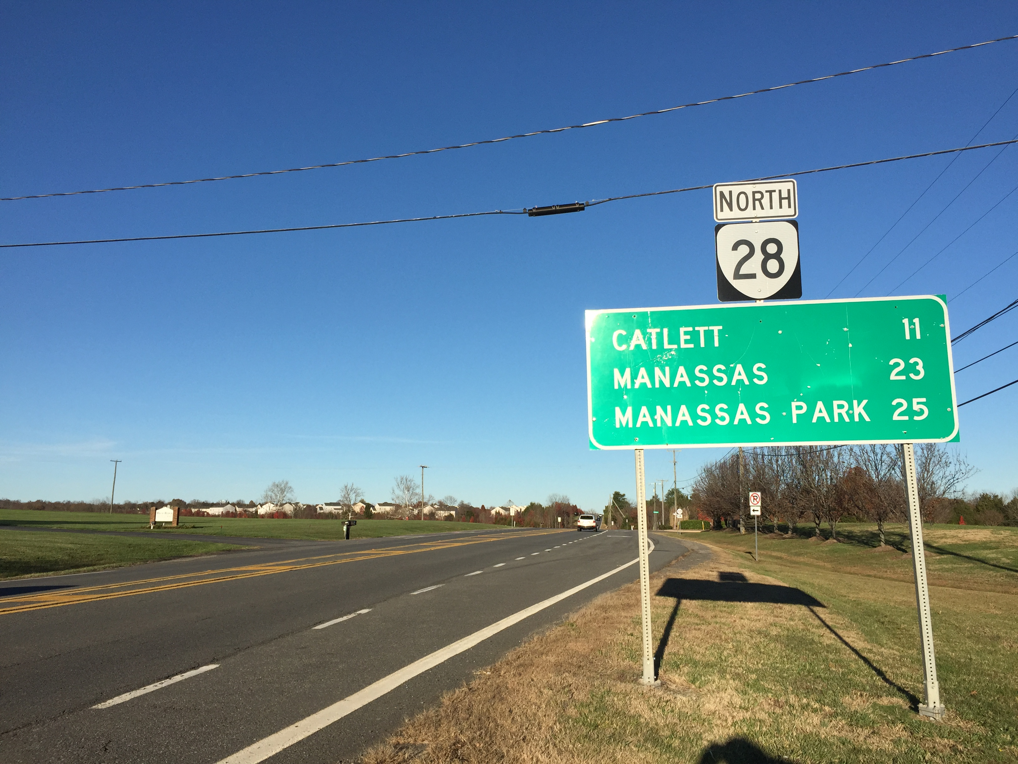 View north along Virginia State Route 28 (Catlett Road) between Craig Run and Whipkey Drive in Bealeton, Fauquier County, Virginia